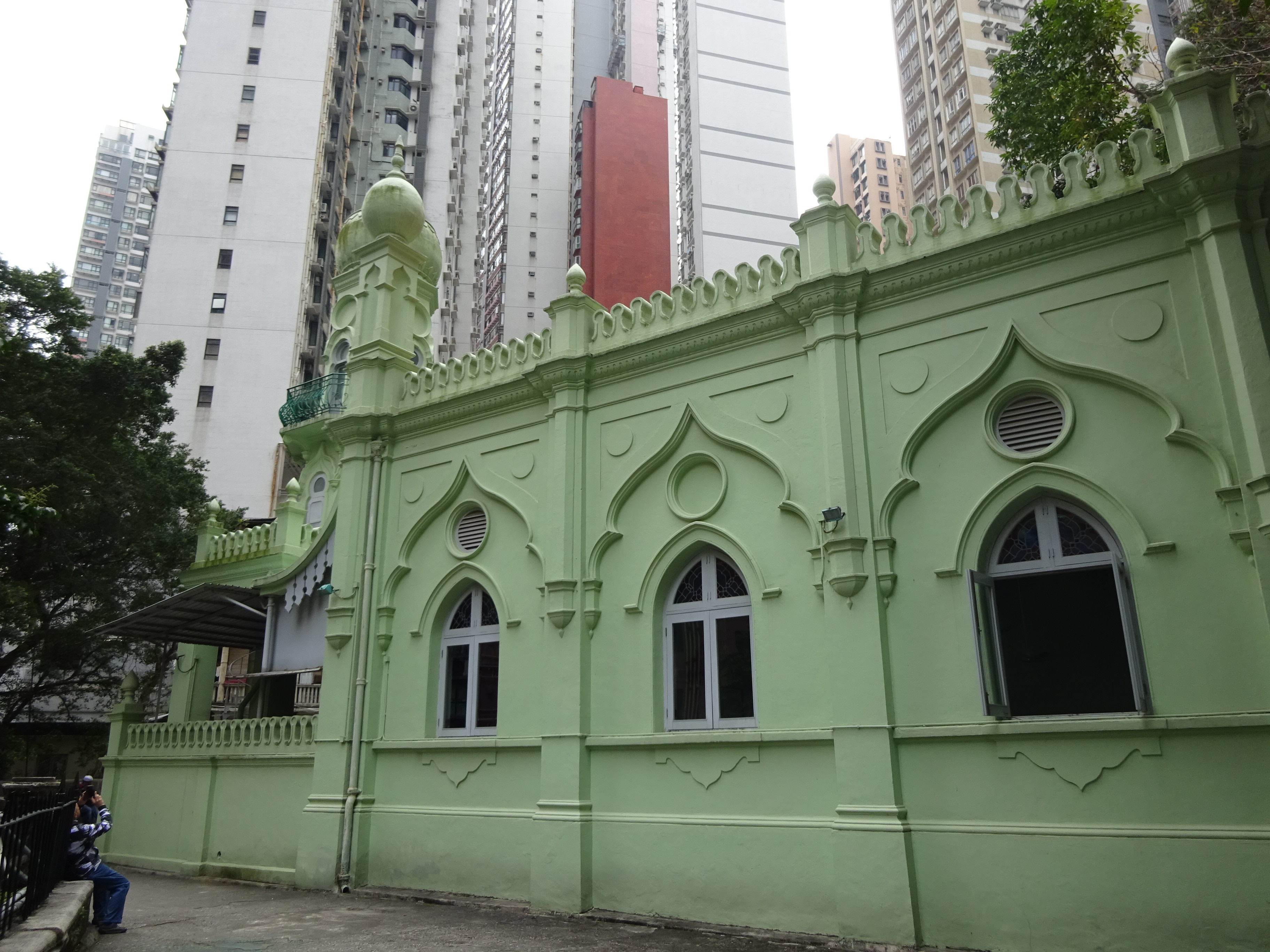 Central 些利街 Shelley Street 回教清真禮拜總堂 Jamia Mosque facade TGP Grand Panorama Mar-2016